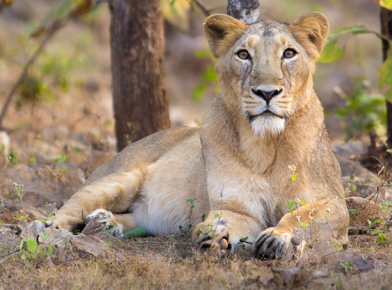 Female in Gir Forest